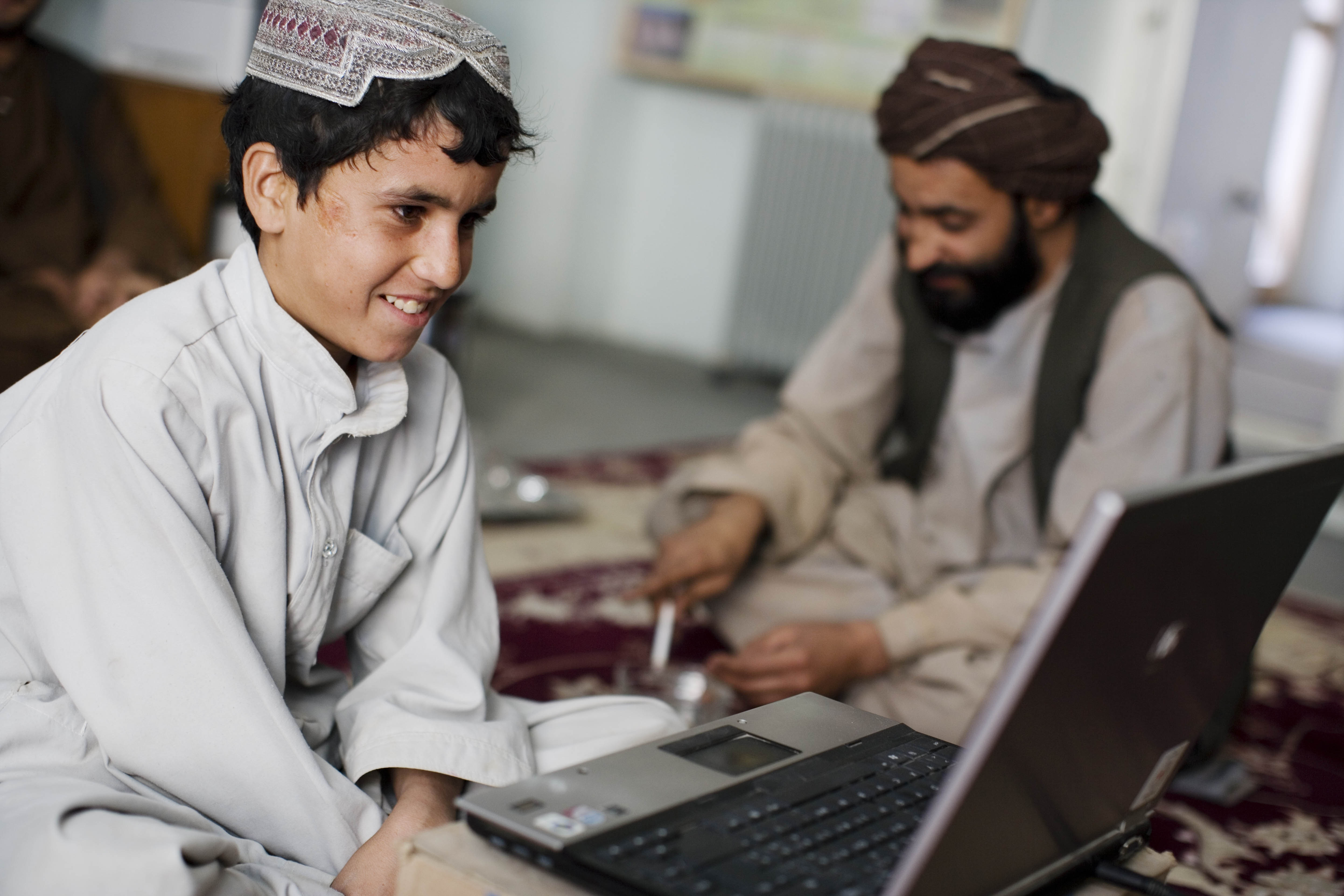 Trying to locate people, and put them back into contact with their relatives, is a major challenge for the ICRC. The work includes tracing people, exchanging family messages, reuniting families and seeking to clarify the fate of those who remain missing.